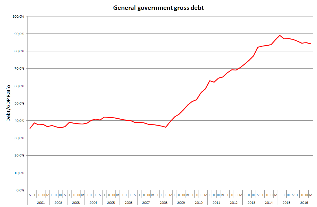 General government gross debt of Croatia, quarterly data from Q4 2000-Q2 2016